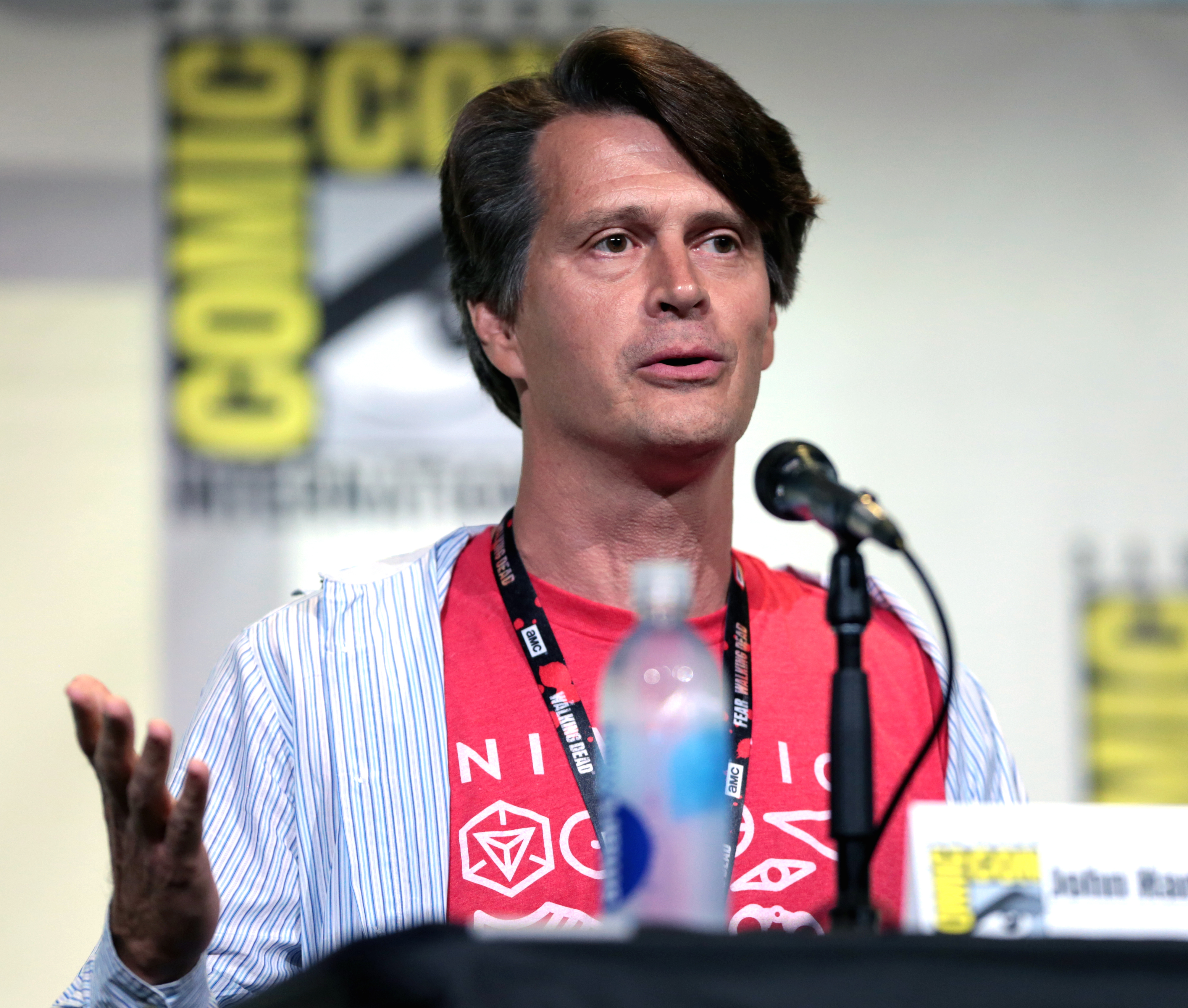 John Hanke speaking at the 2016 San Diego Comic-Con International in San Diego, California.